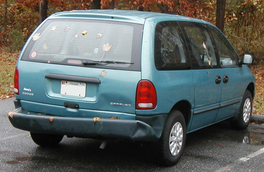 IFCAR's 1996 Dodge Caravan, post-collision.